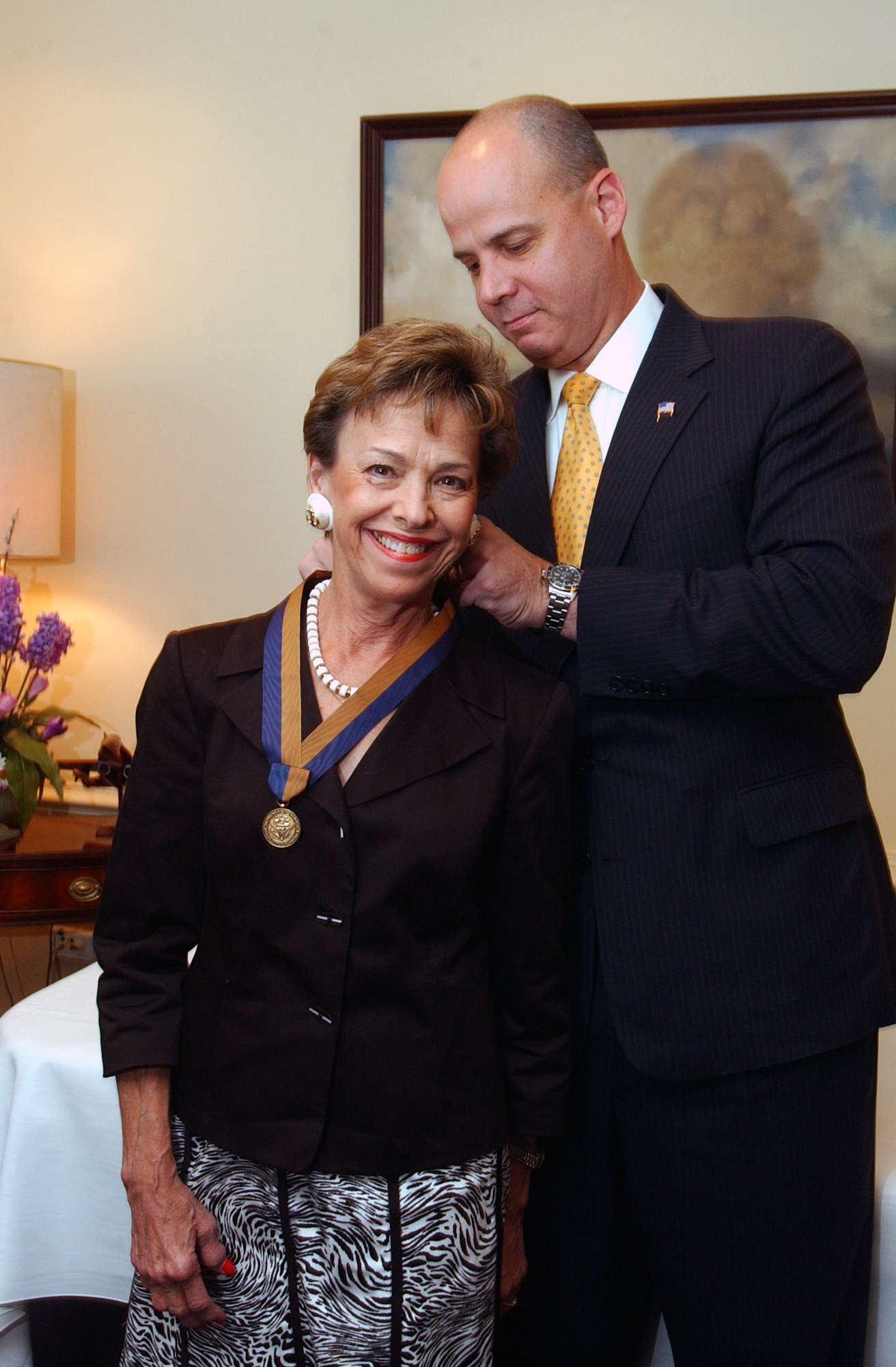 Washington, D.C. (July 26, 2005) - Under Secretary of the Navy, the Honorable Dino Aviles presents the Meritorious Public Service Award to Mrs. Margaret Dalton in a ceremony held at the Pentagon. Dalton was recognized for her service to the Navy while serving as president of the Society of Sponsors from October 2003 to May 2005. Her participation in various ships christenings, commissionings and other significant events contributed in helping to educate the public and military personnel about the traditions of the Navy. U.S. Navy photo by Chief Journalist Craig P. Strawser (RELEASED)